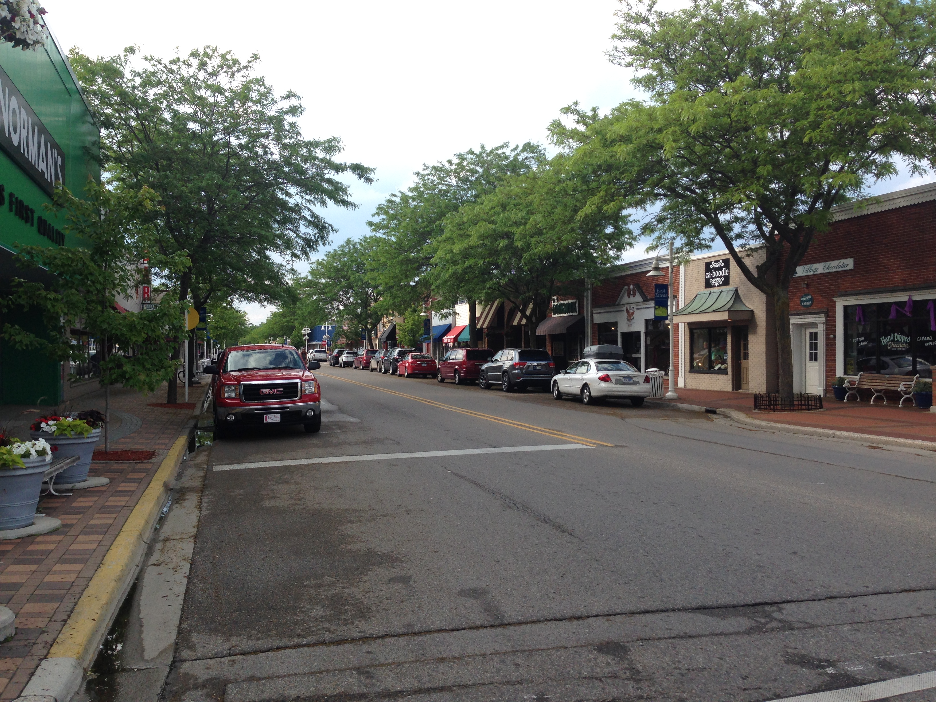 downtown East Tawas, Michigan